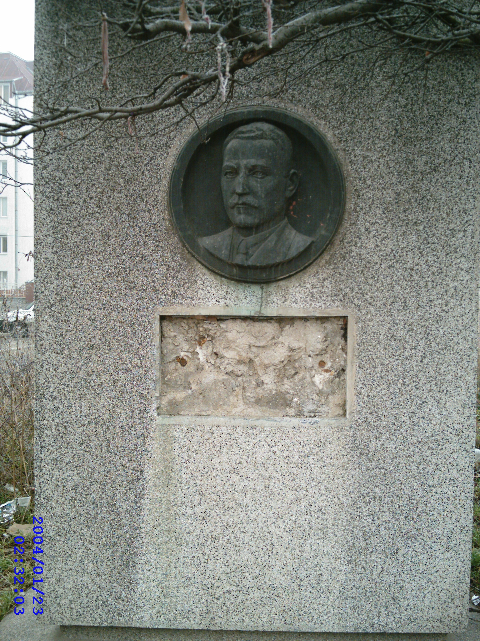 I took this picture myself.